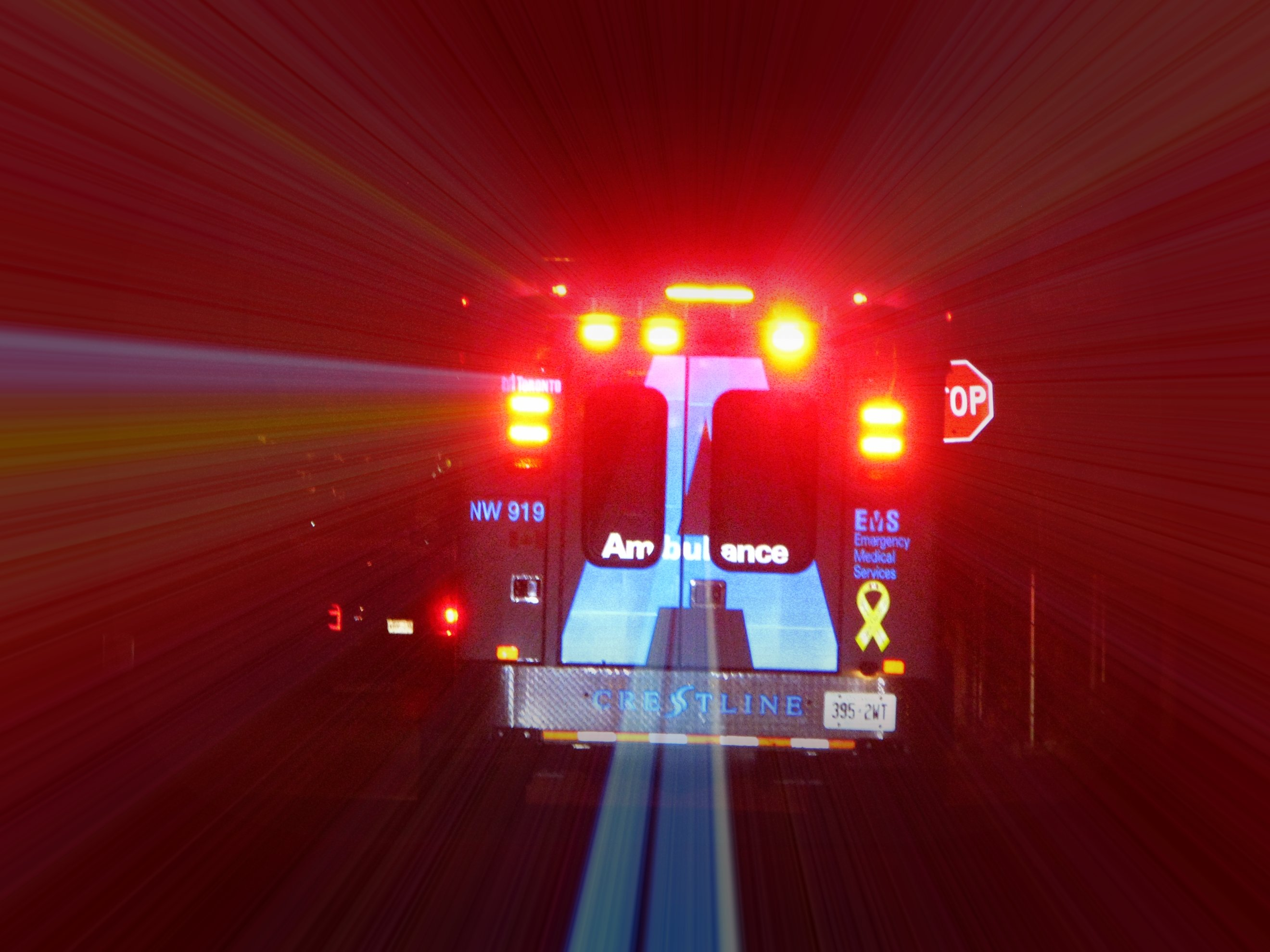 Lights of an ambulance at night in Toronto, Ontario, Canada.